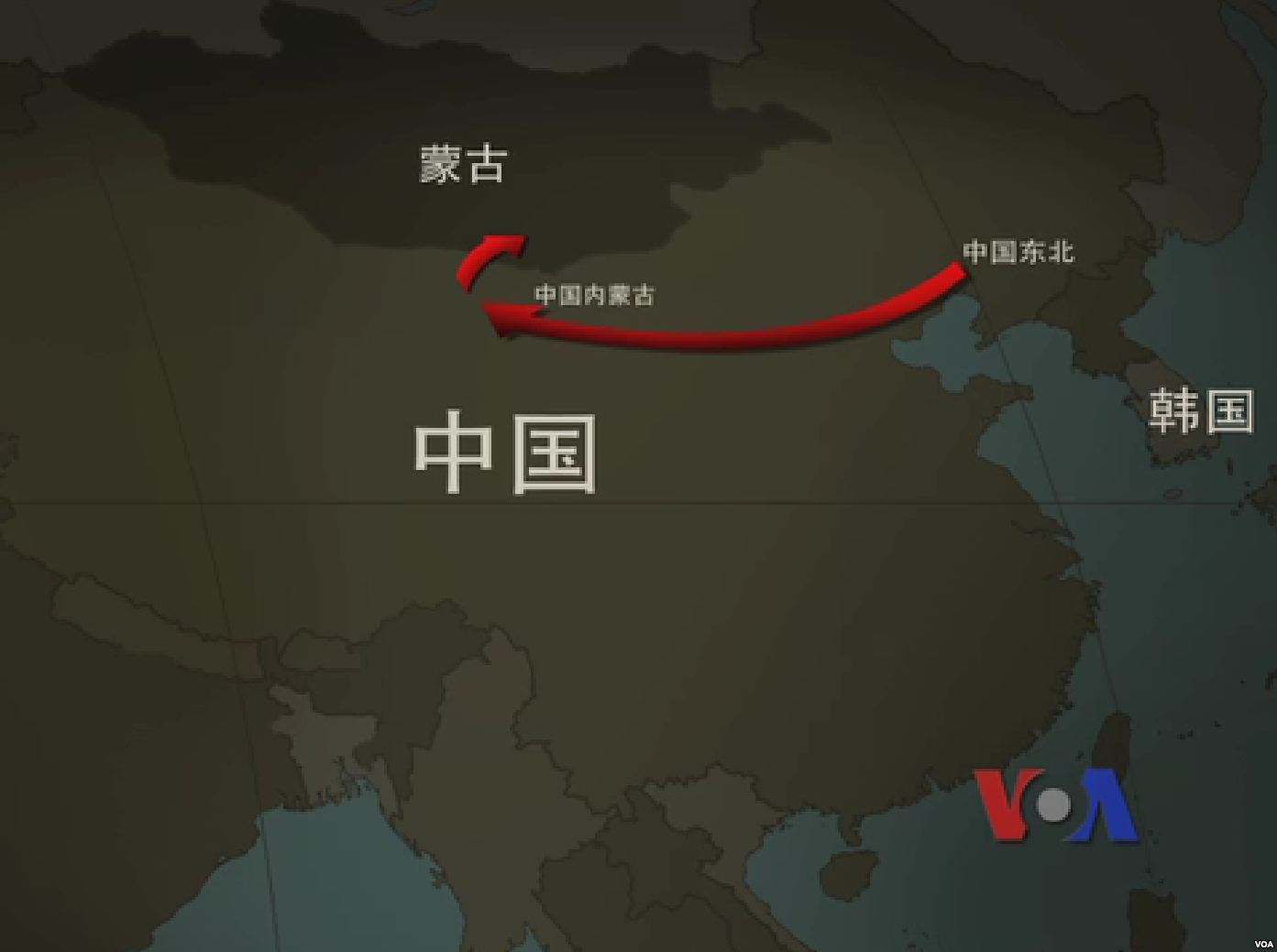 North Korean defectors go to Mongolia